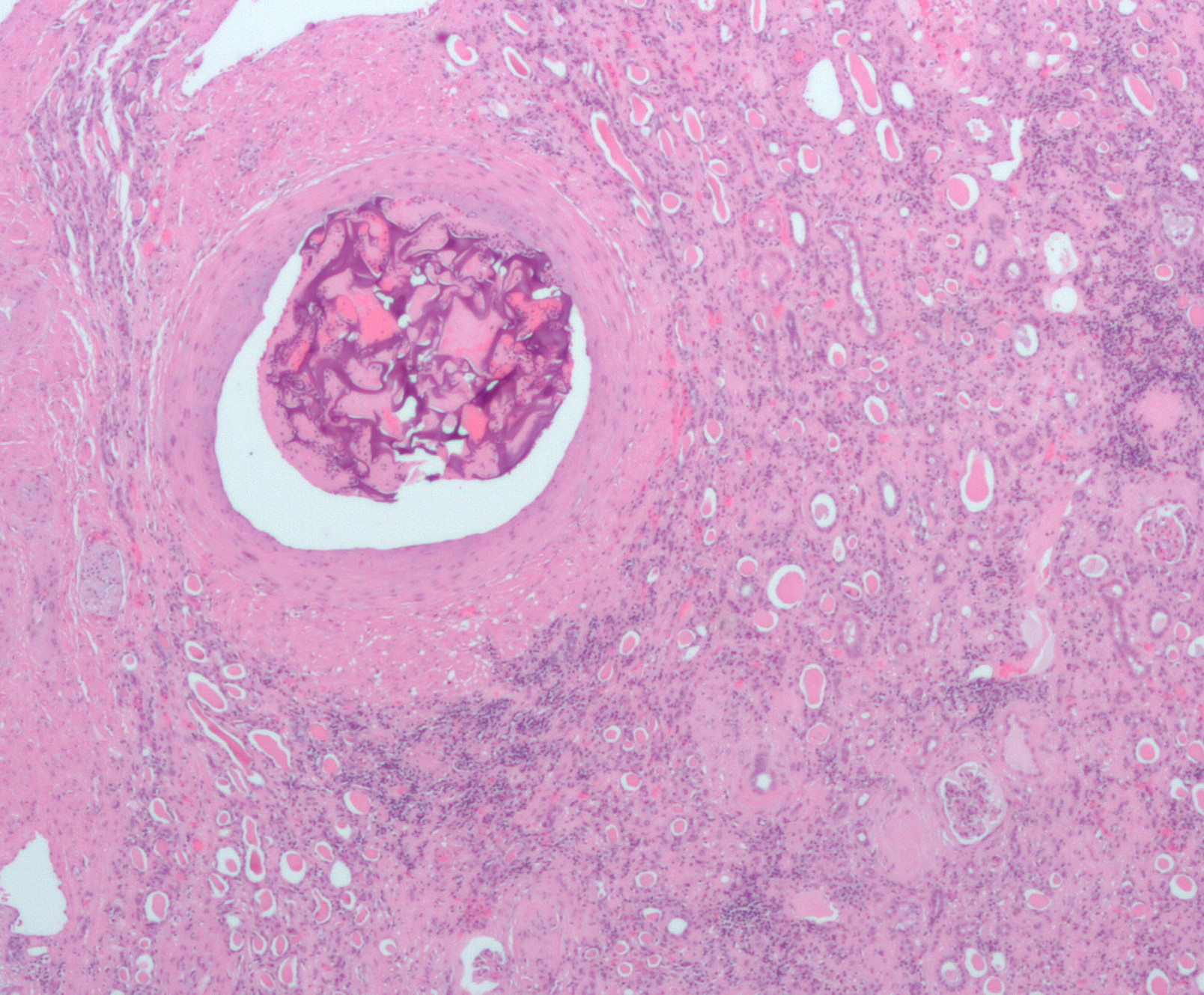 Micrograph showing a large artery with foreign material - result of an embolization procedure prior to a nephrectomy for renal cell carcinoma. The renal cell carcinoma is not shown on the image. Kidney - cortex: multiple glomeruli and tubules are seen. H&E stain. Low power.